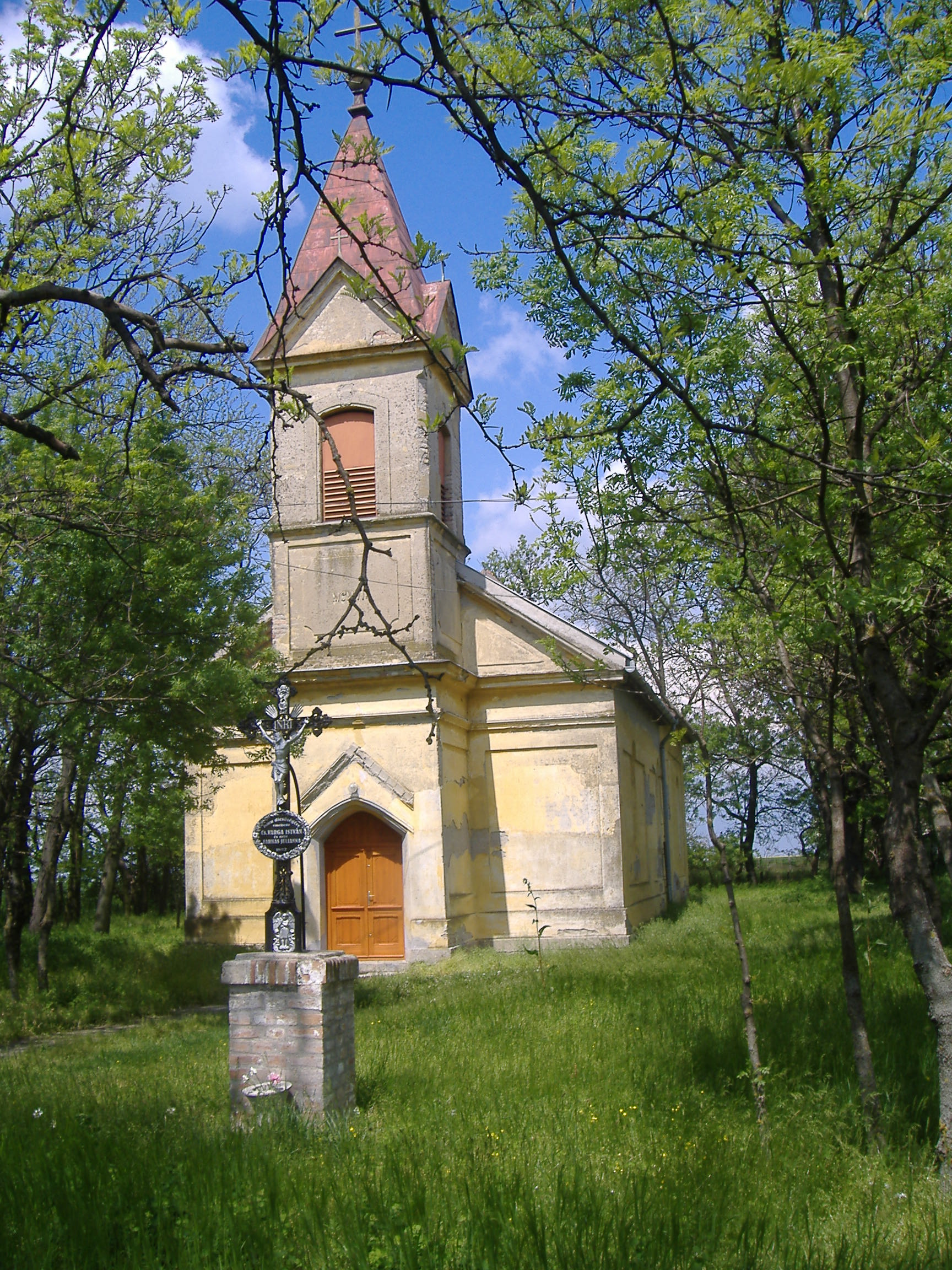 Curch in Bogárzó, periphery of Makó, Hungary.